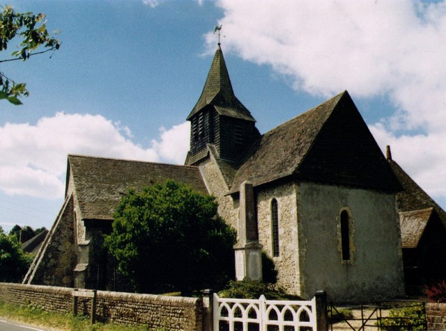 St Peter's parish church, North Hayling, Hampshire